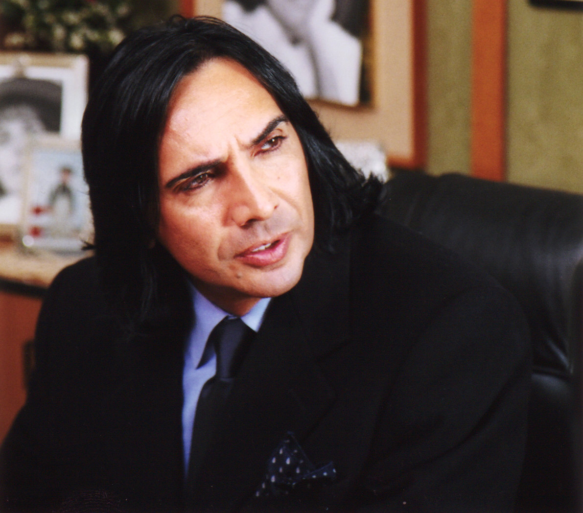 photo of the director Antonio Maria Magro